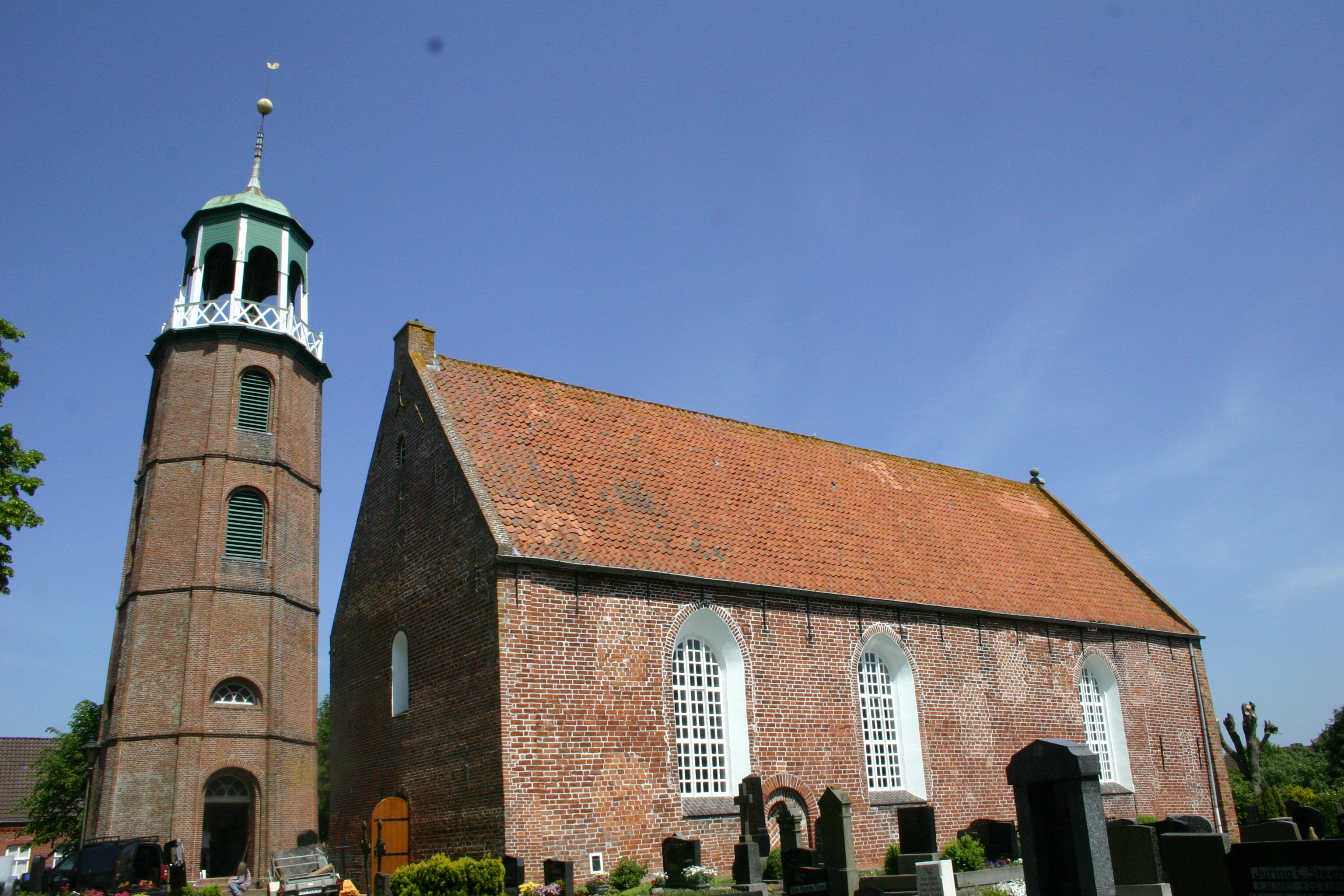 The Ditzum Church in Ditzum (a locality of Jemgum), district of Leer, East Frisia, Lower Saxony, Germany, is owned and used by a Reformed congregation within the Evangelical Reformed Church – Synod of Reformed Churches in Bavaria and Northwestern Germany.